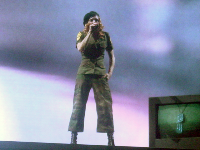 Concert